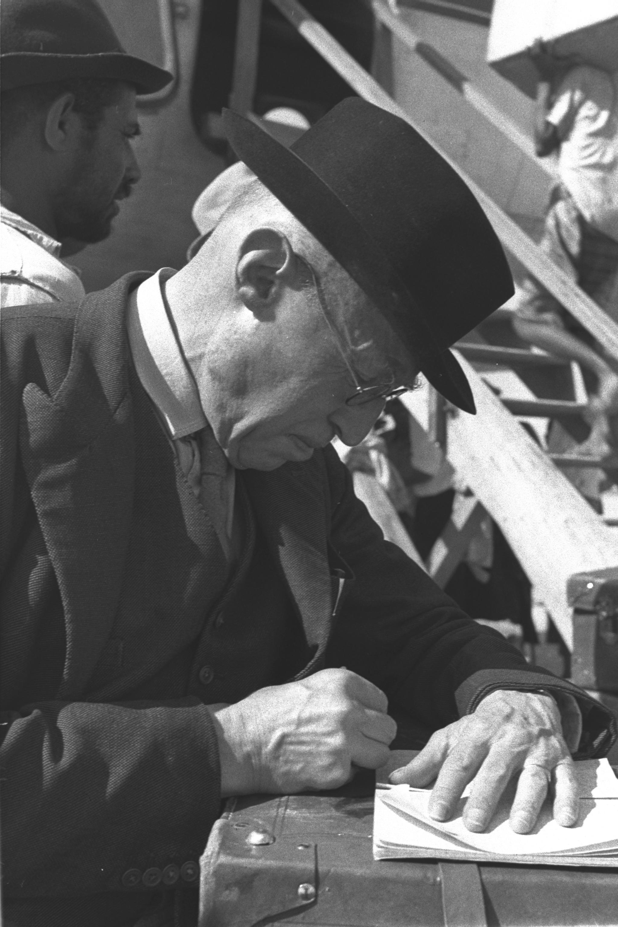 Prof. Norman Bentwich of the Hebrew University arriving at Aden, 1950